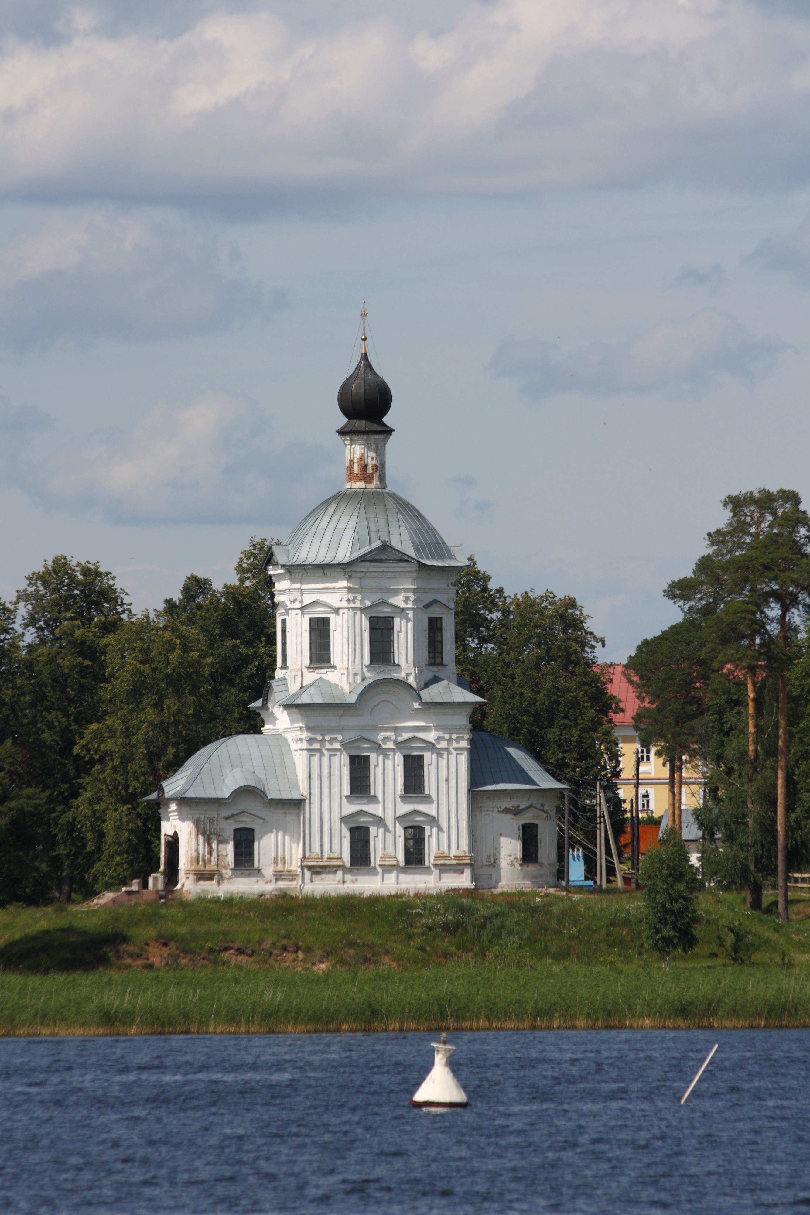 Nilo-Stolobensky monastery (Seliger, Russia)